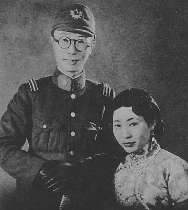 Prince Aisin-Gioro Pǔjié (1907–1994) and Lady Hiro Saga (1914–1987)